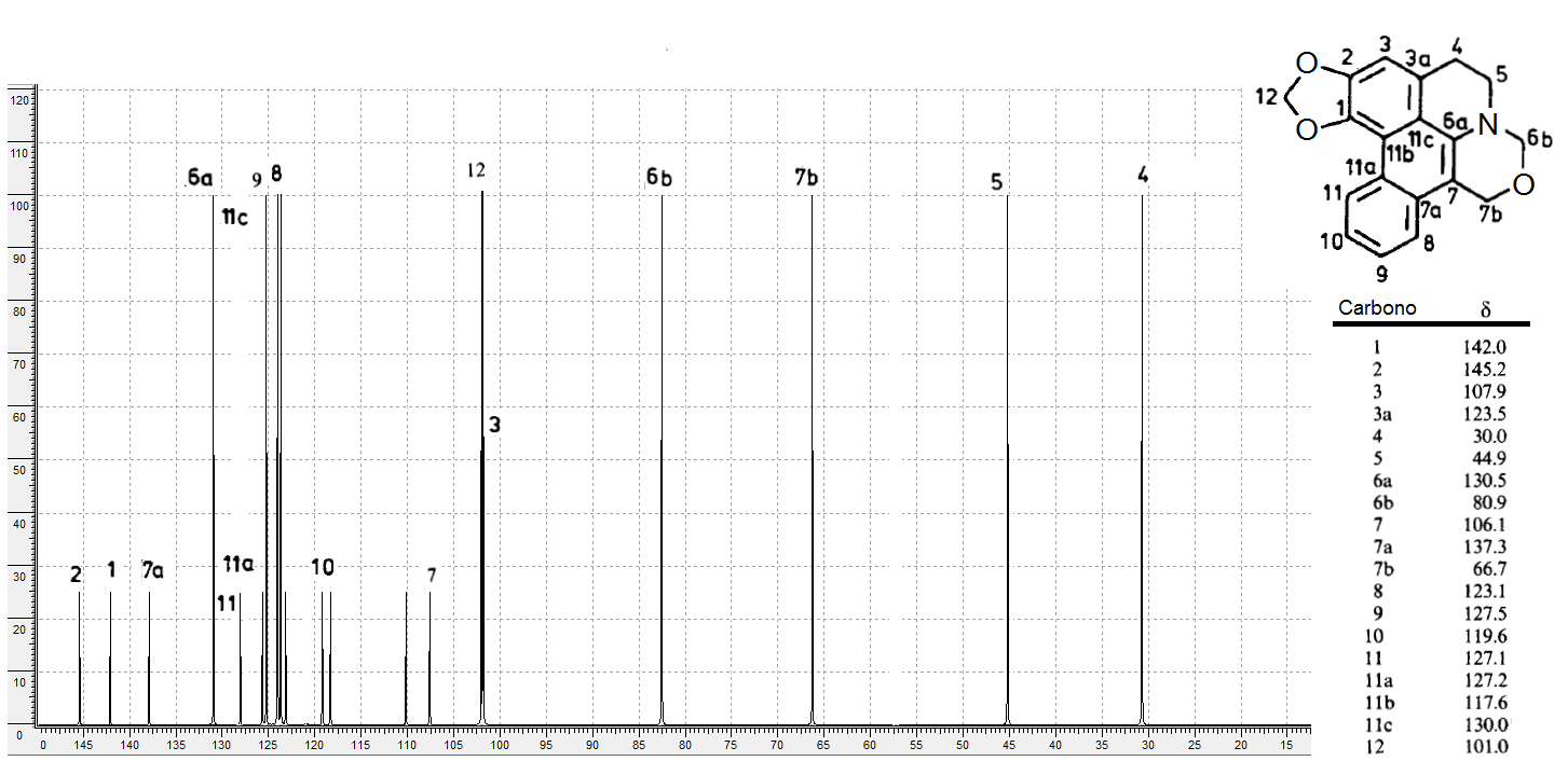 DUGUENAINE NMR-C